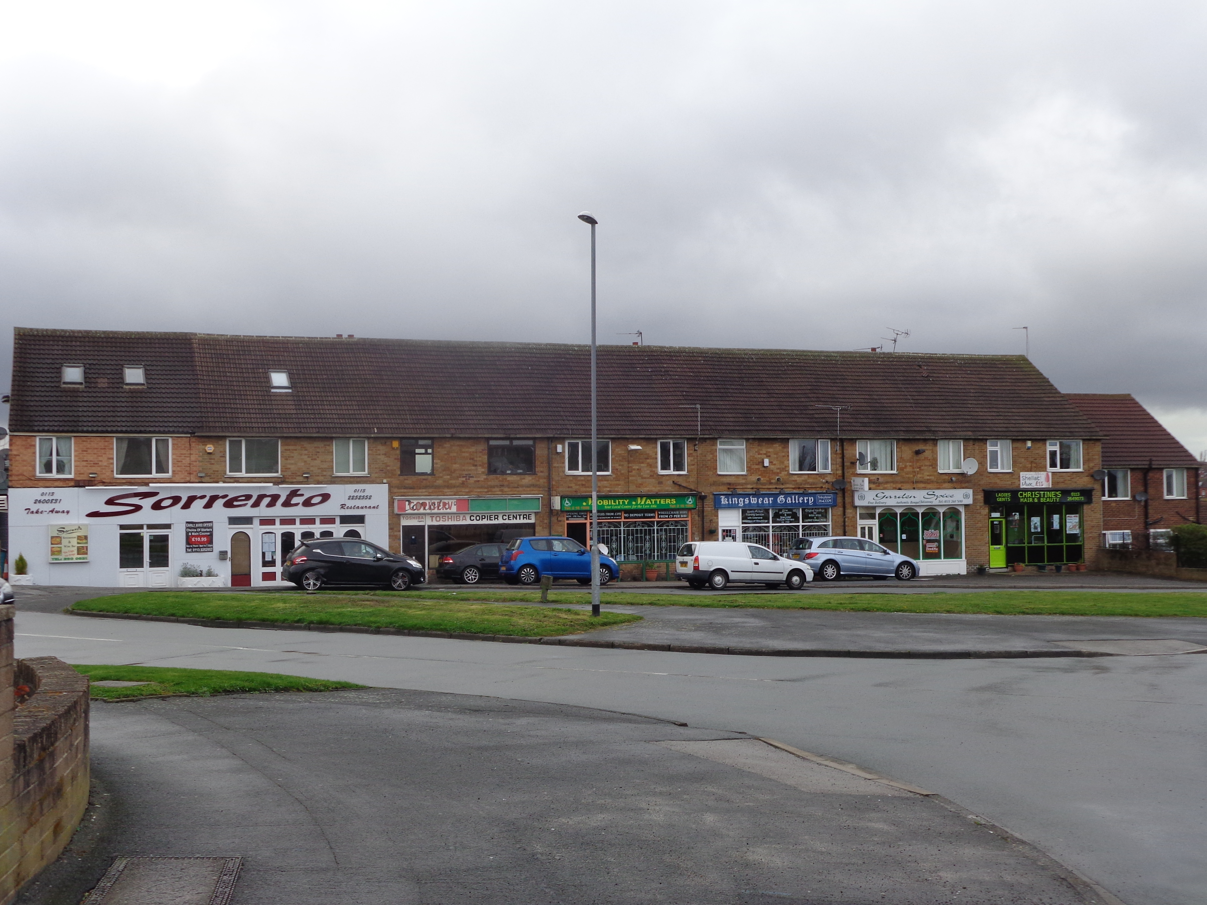 Shops, Kingswear Parade, Austhorpe, Leeds, West Yorkshire. Taken on the afternoon of Saturday the 22nd of March 2014.